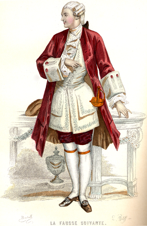 The False Servant (1724) by Pierre de Marivaux (1688-1763)